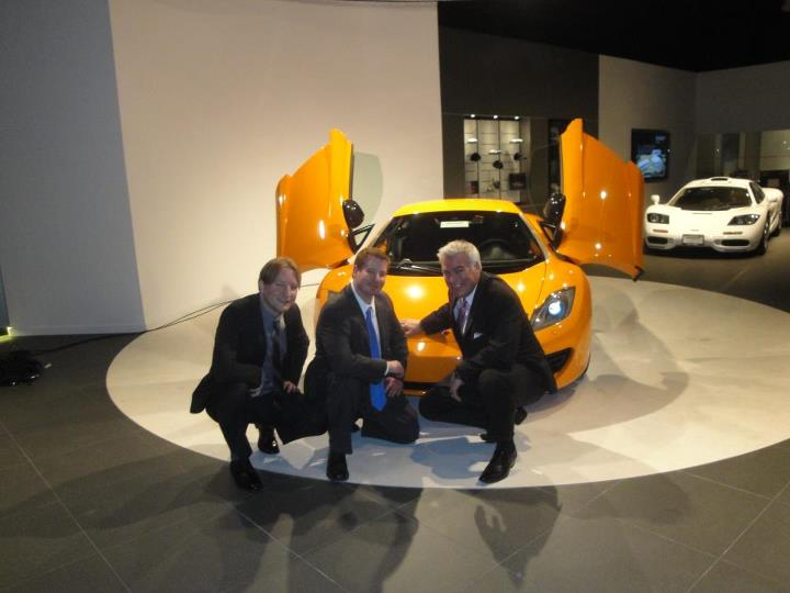 Frank Stephenson (right) at the McLaren MP4 Launch for Lake Forest Sports Cars